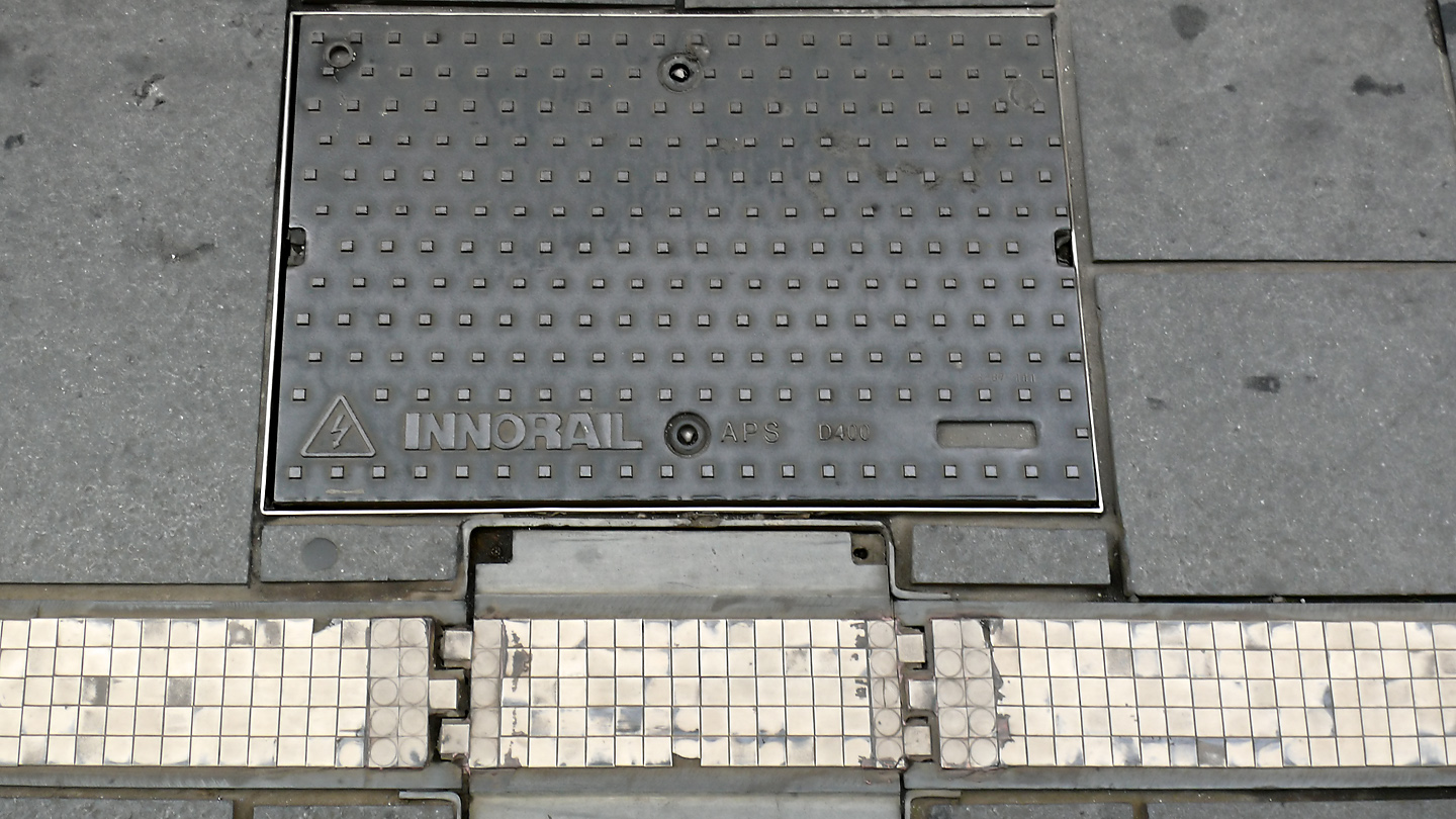 Control Box, controlling two sections of track